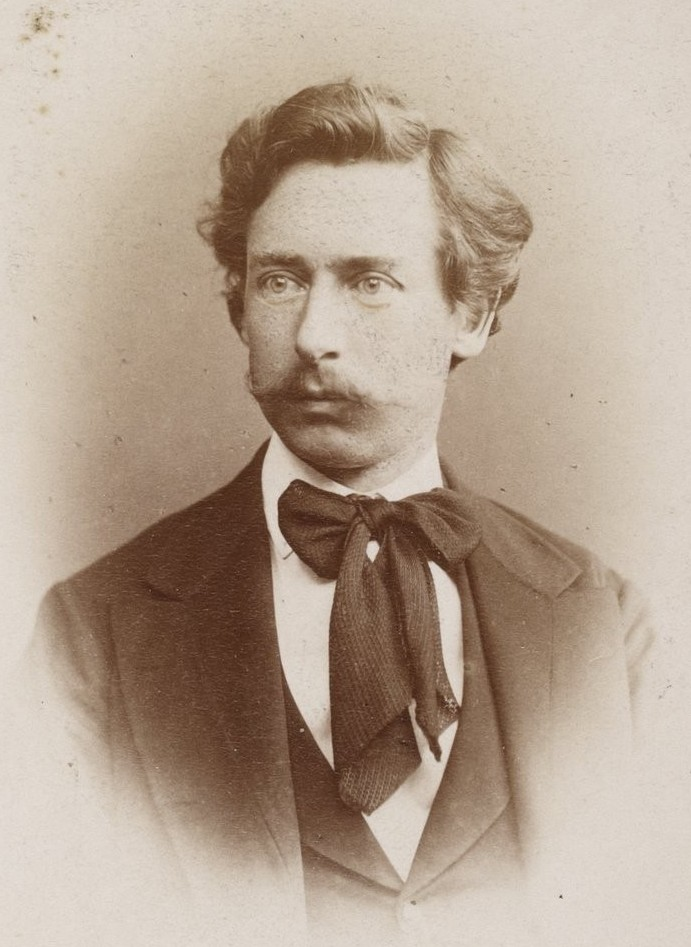 Julius Gertinger (1834-1882): Ernst Marno, 1877 portrait photograph at bust length.